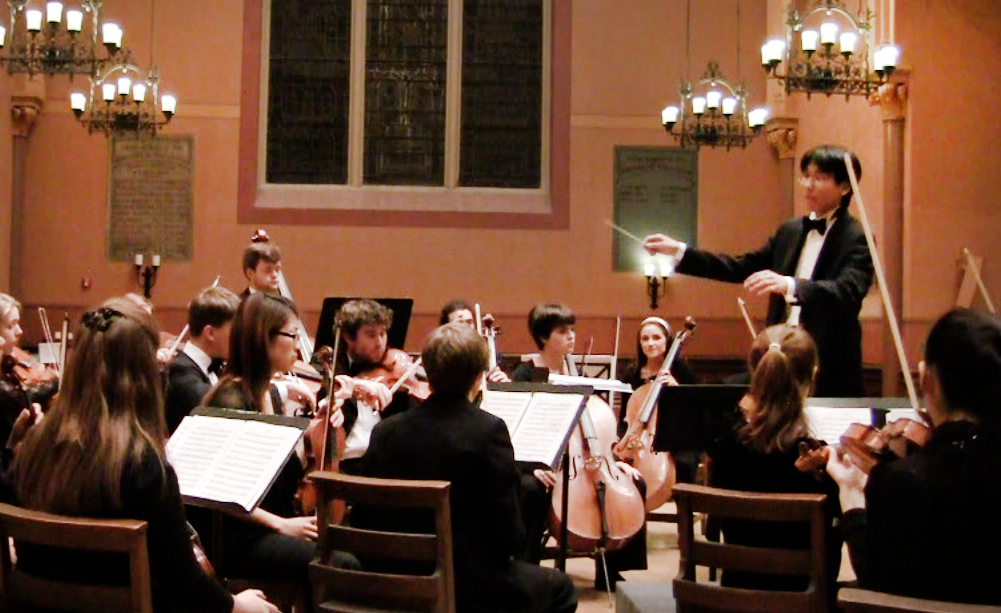 Olivia Culpo plays with Boston Accompanietta in a charity concert on March 31, 2012